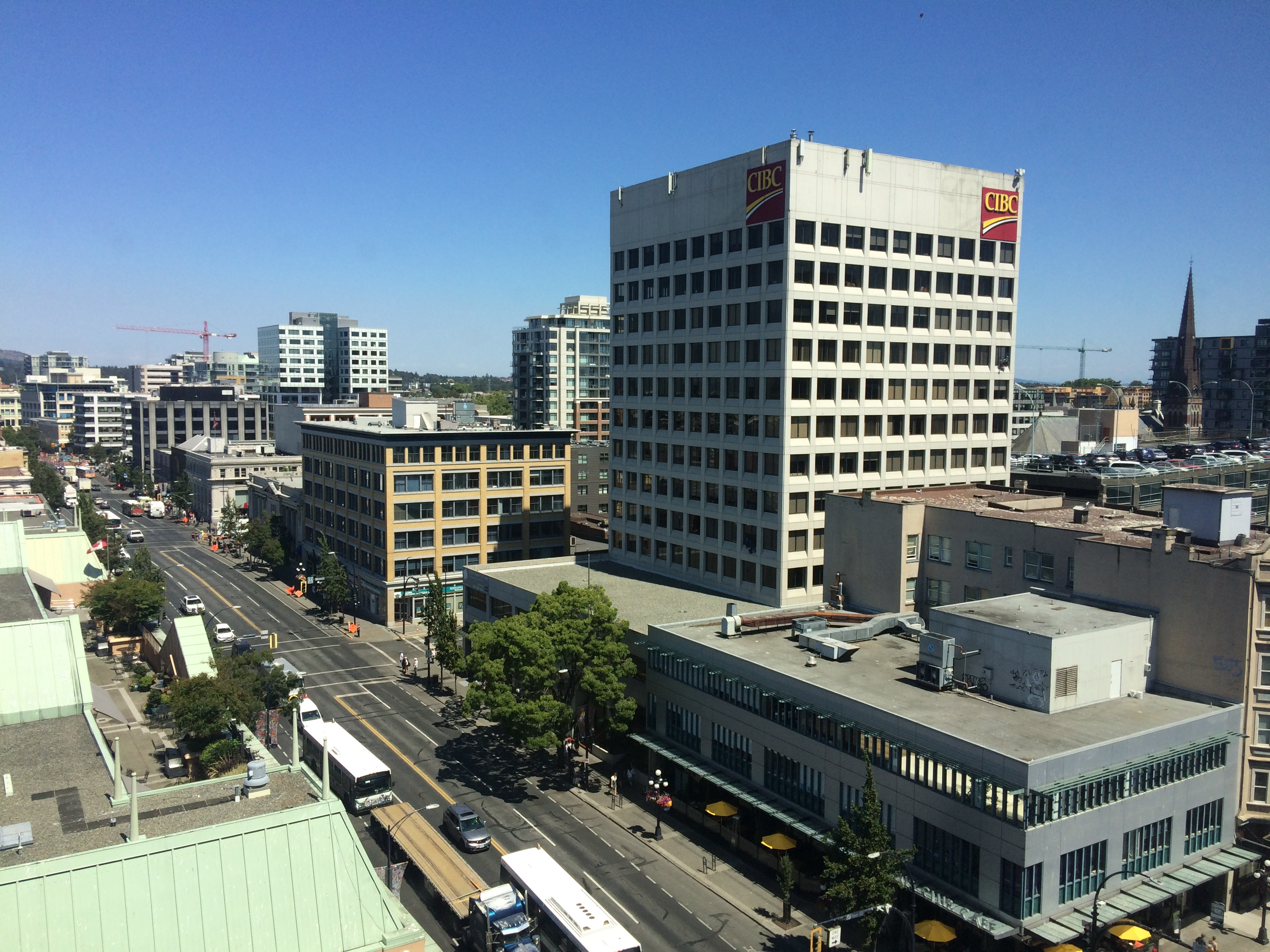 View of Victoria's downtown skyline looking north up Douglas Street.